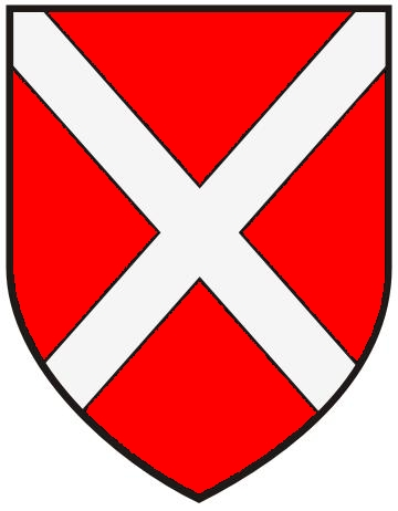 Coat of Arms of Rode van Opsinnich